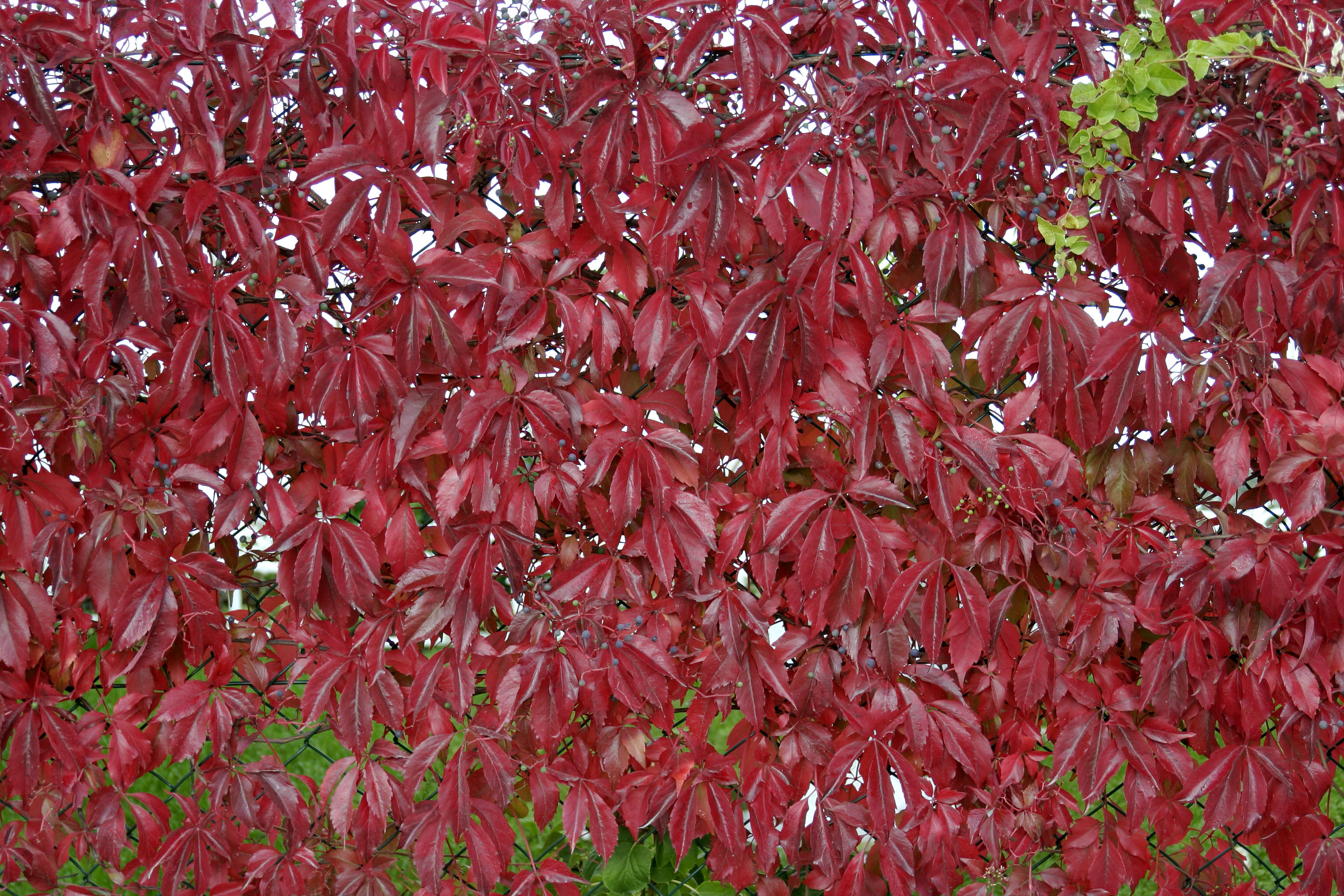 Parthenocissus quinquefolia in autumn